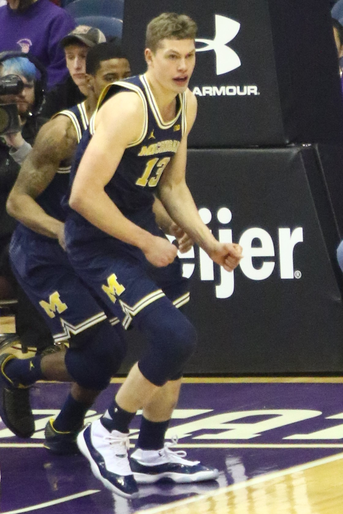 Moritz Wagner (basketball) playing for the w:2017–18 Michigan Wolverines men's basketball team at Allstate Arena